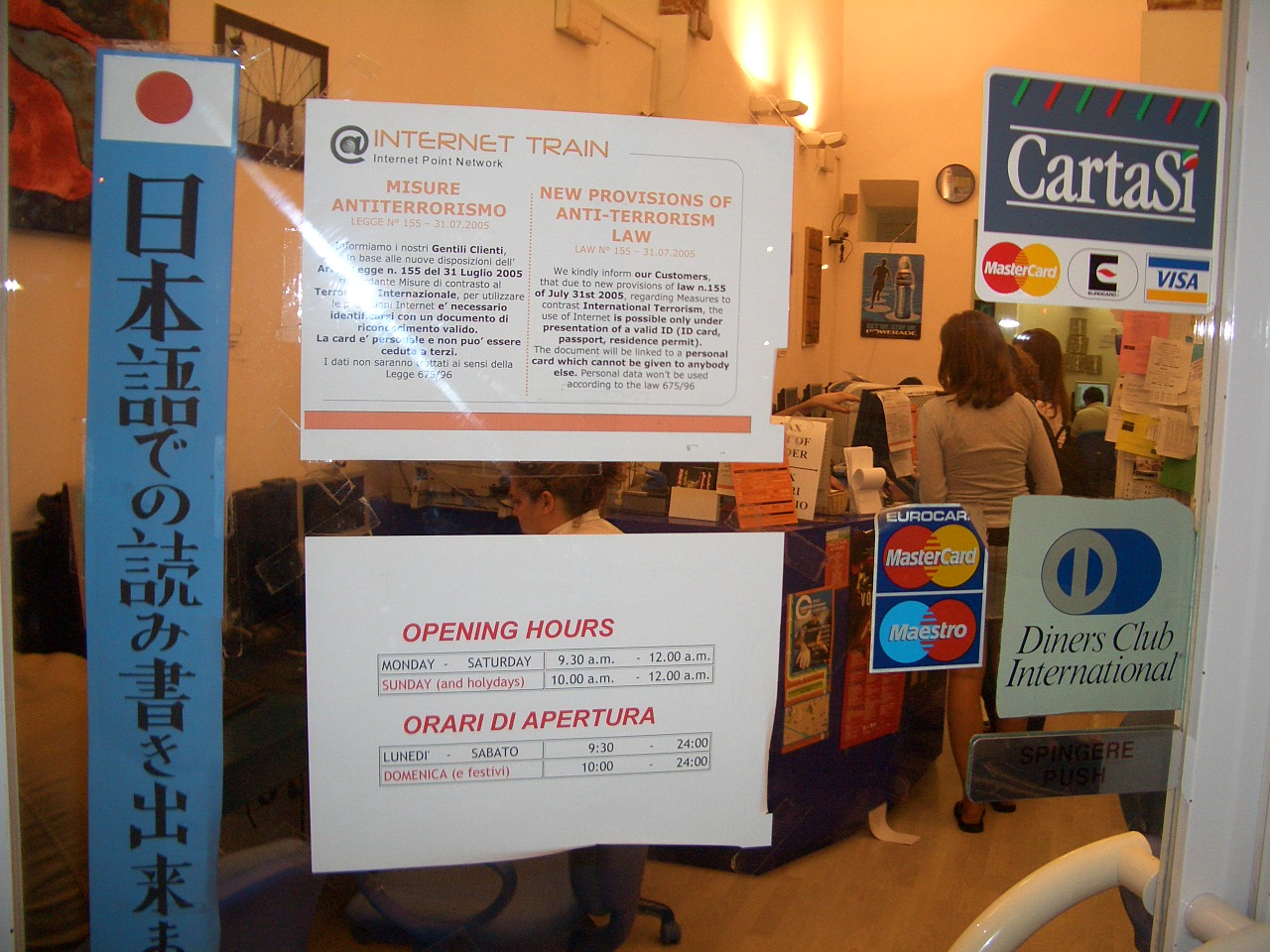 The entrance to an internet cafe in Florence, Italy. A sign posted on the door states that users, under Italian law (Law No. 155 of 31 July 2005) are required to provide valid identification before receiving computer terminal services